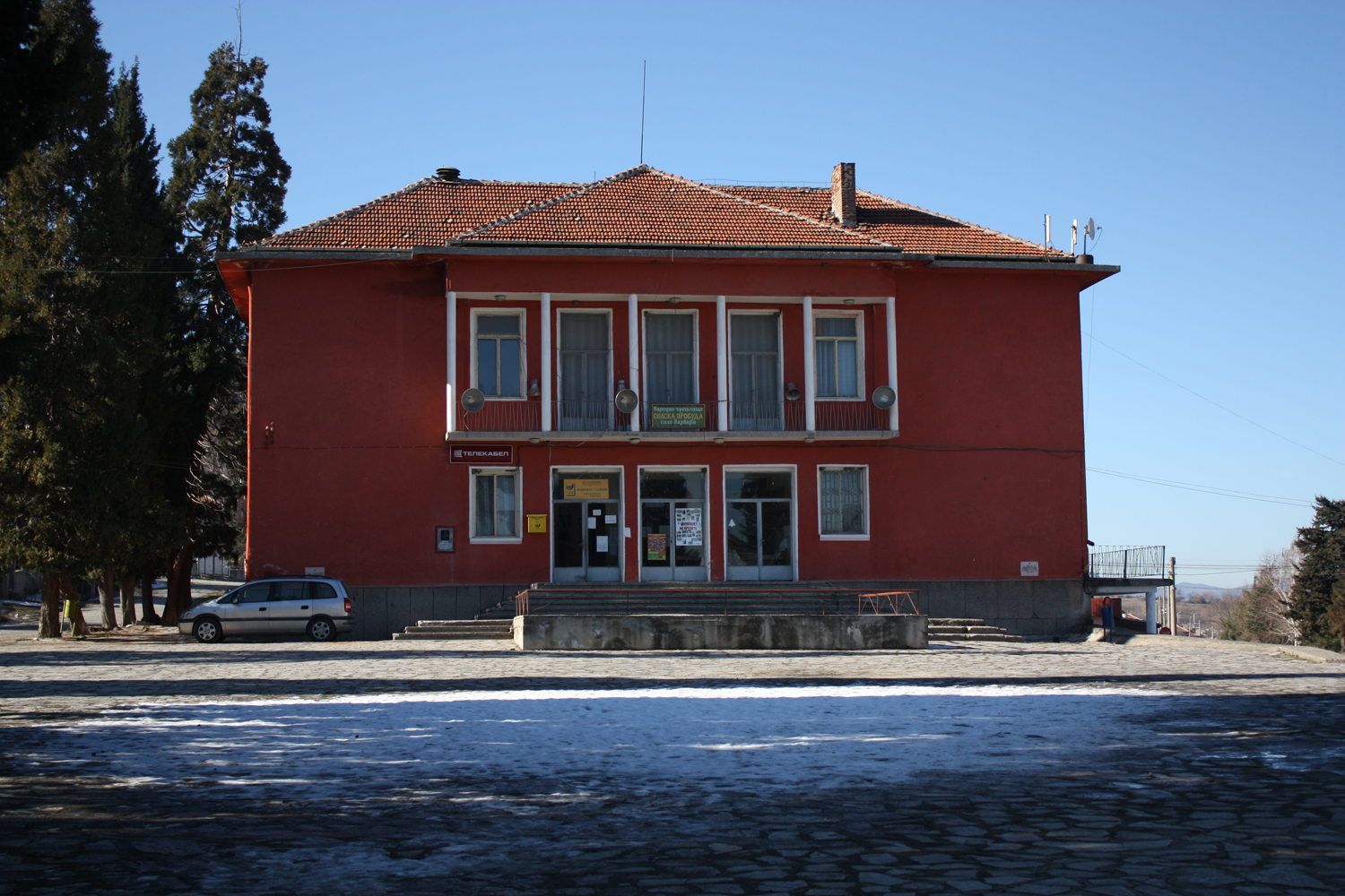 Varvara (Pazardzhik district) Chitalishte (culture club }